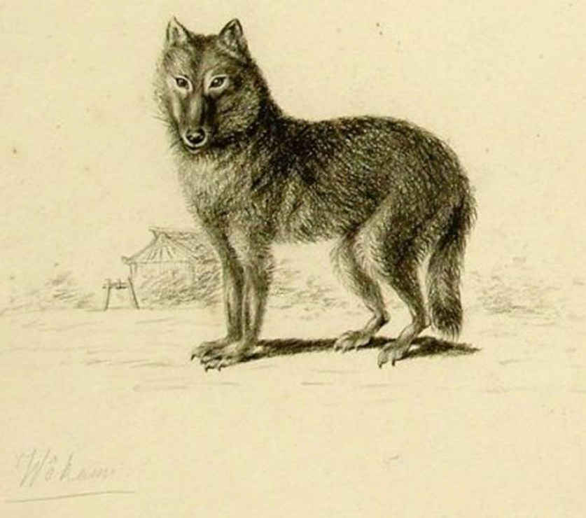 Honshu wolf on Dejima